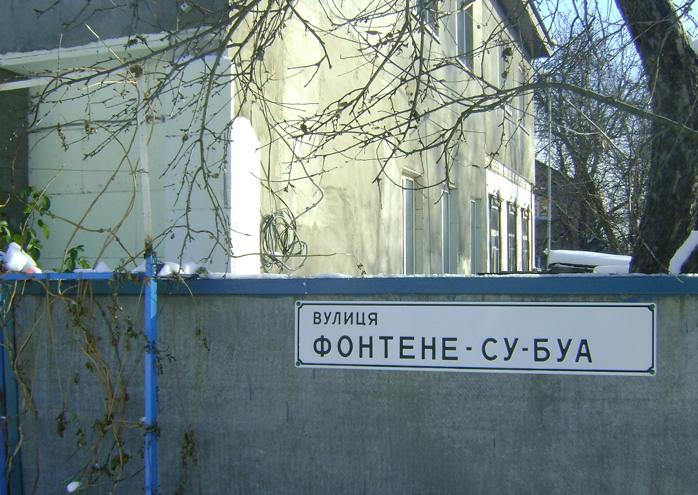 New street sign at the beginning of Fontenay-sous-Bois Street, Brovary, Kyiv Oblas, Ukraine. Inscription on the plate in Ukrainian: "Fontenay-sous-Bois Street".